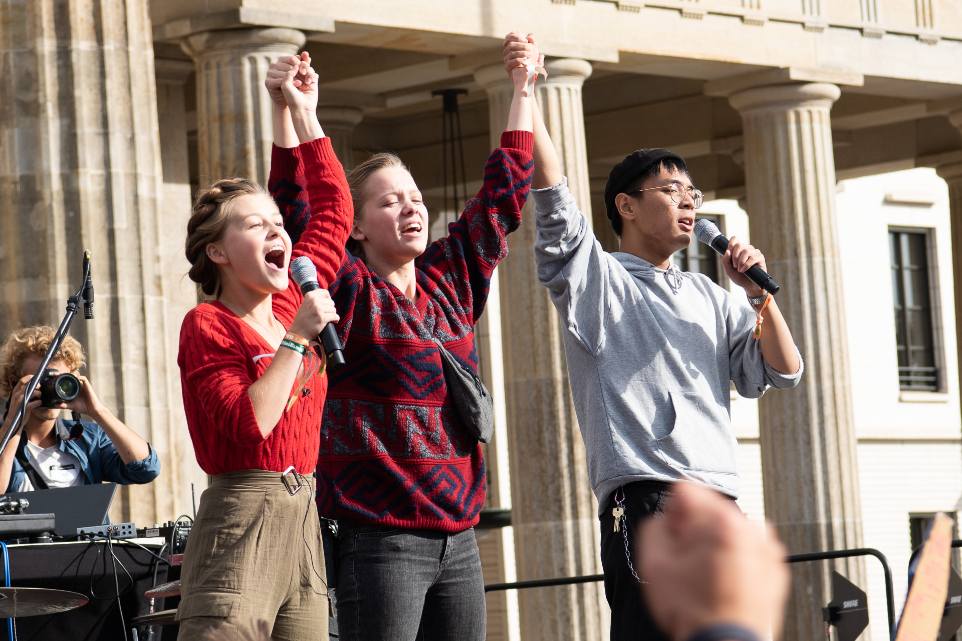 FridaysForFuture Demonstration in Berlin, 20.09.2019